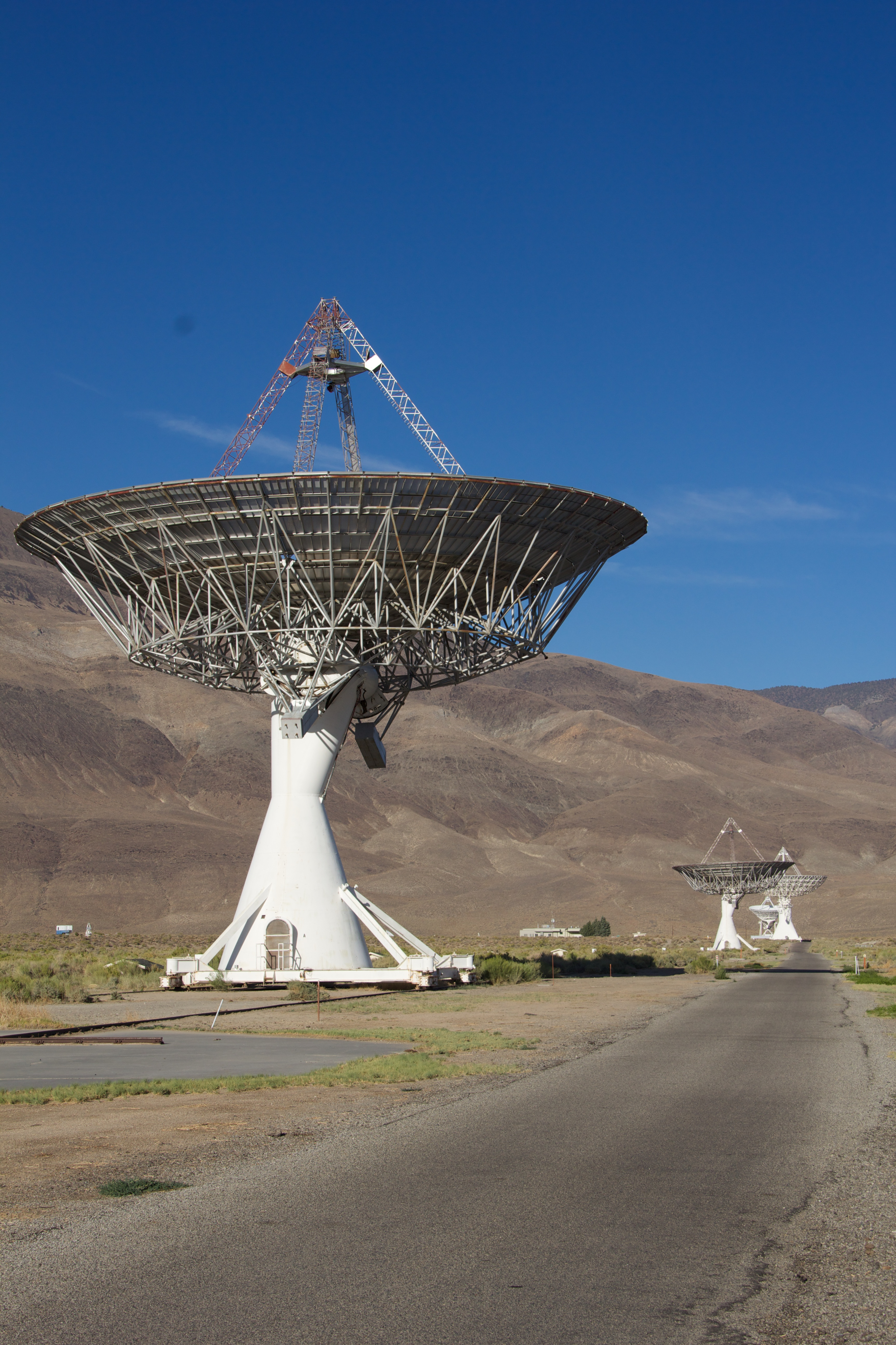 OVRO, California.